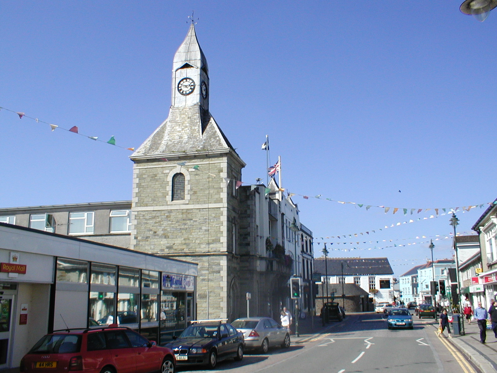 Wadebridge Clock Tower